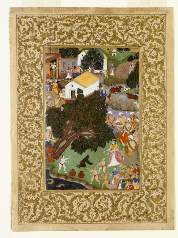 Victoria and Albert museum